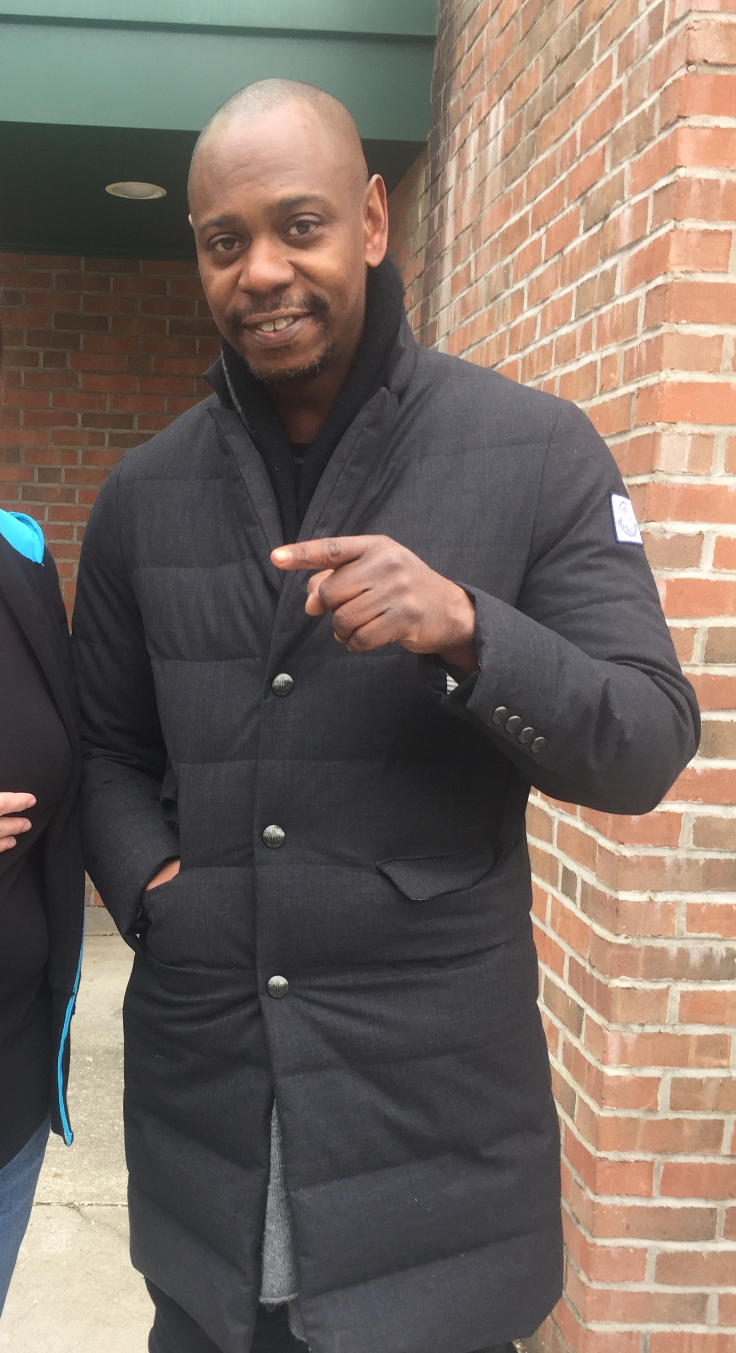 Dave Chappelle in Yellow springs April 2016